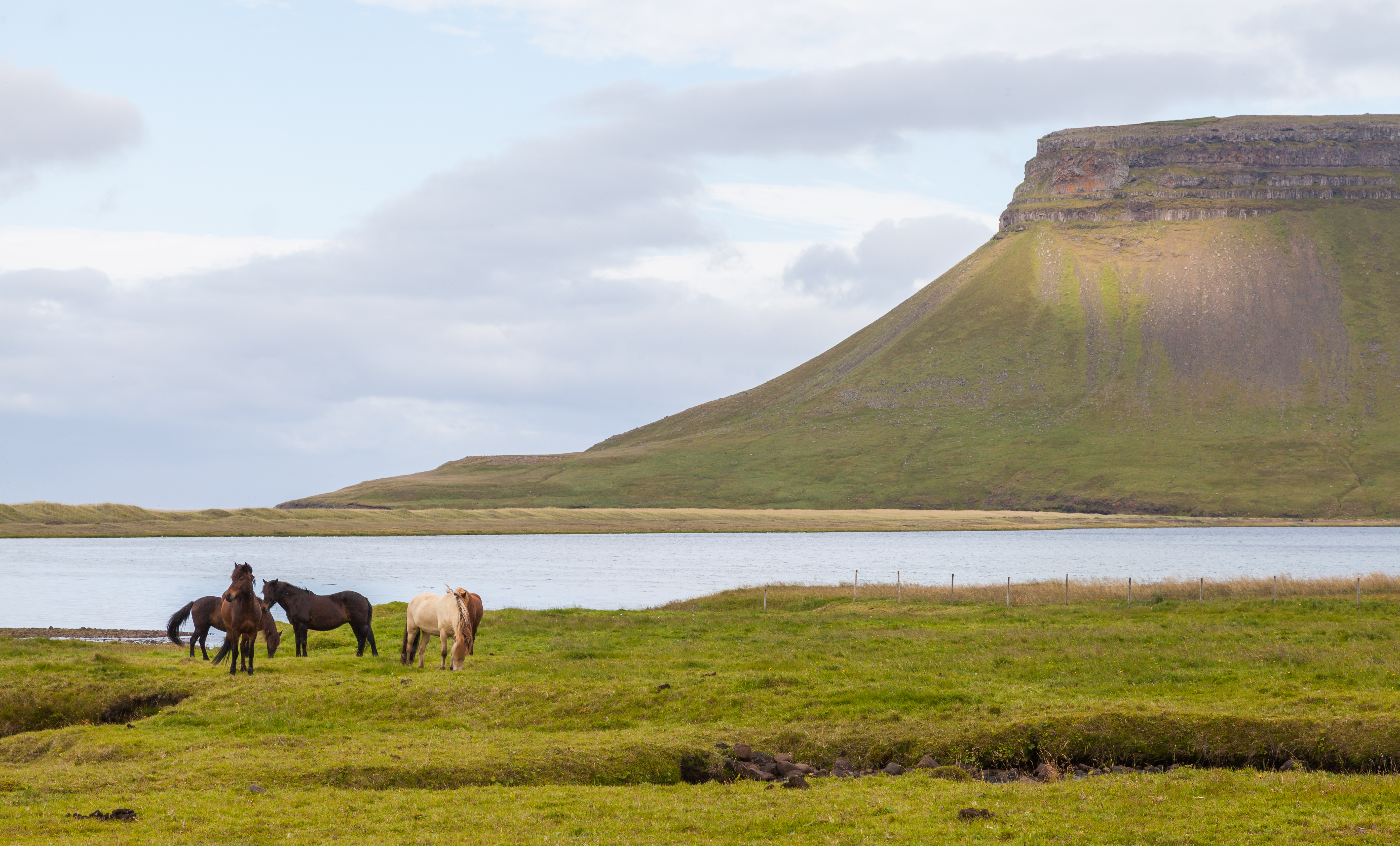 Icelandic horses in Búlandshöfði, Vesturland, Iceland.